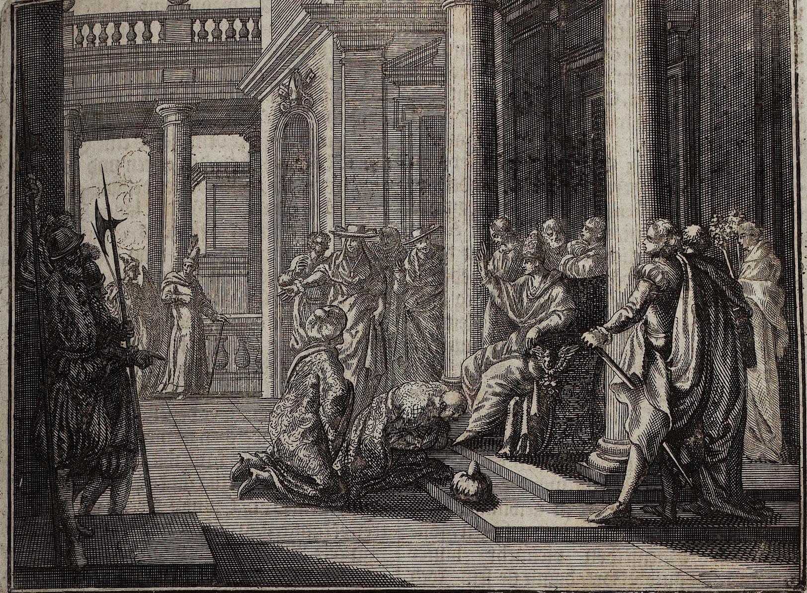 Rycaut 1694 bd1, p. 71 (249). Prince Jem. 1482